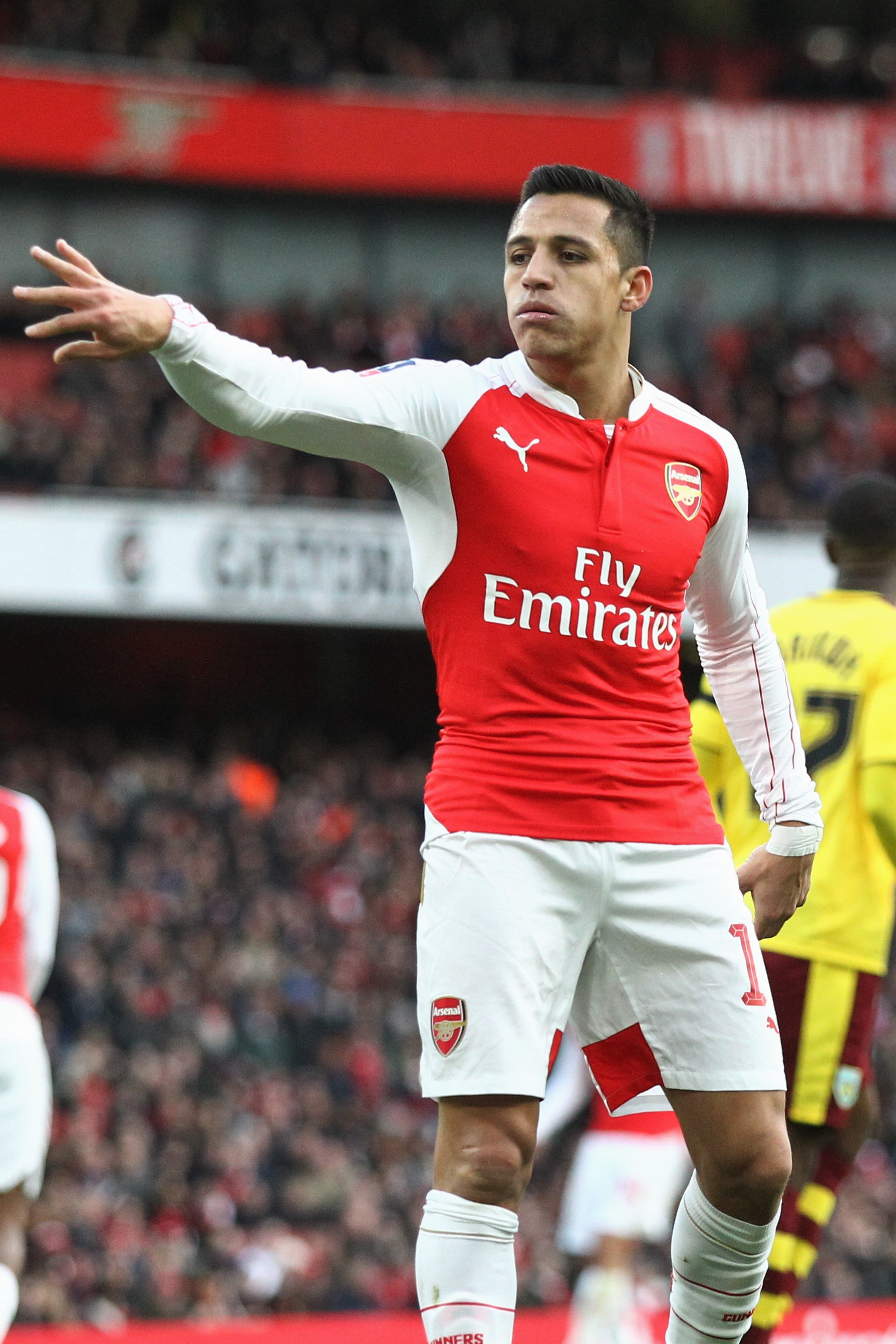 Alexis Sanchez of Arsenal during the game against Burnley.